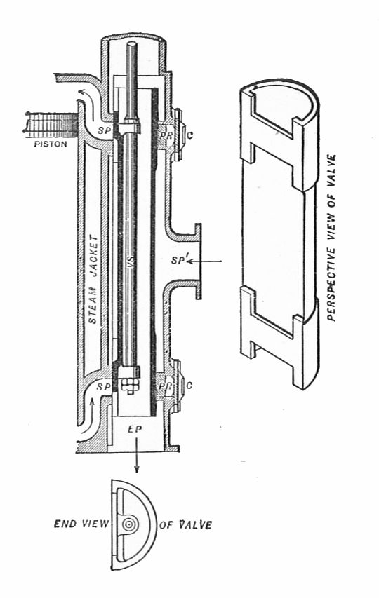 Murdoch's long D slide valve (Jamieson, Elementary Manual on Heat Engines).jpg